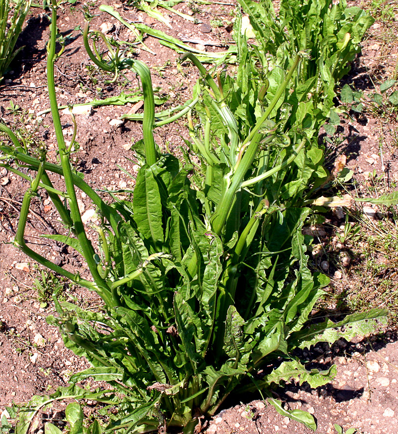 Variety of chicory, from Puglia, Italy